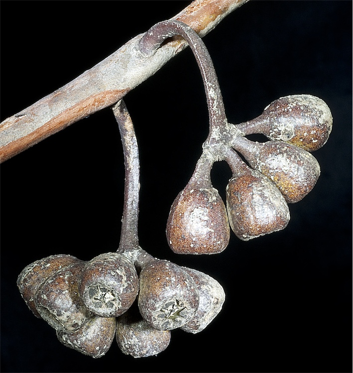 Fruit of Eucalyptus eremophila at Trans-Australia railway line 17.2 km E of Koolyanobbing